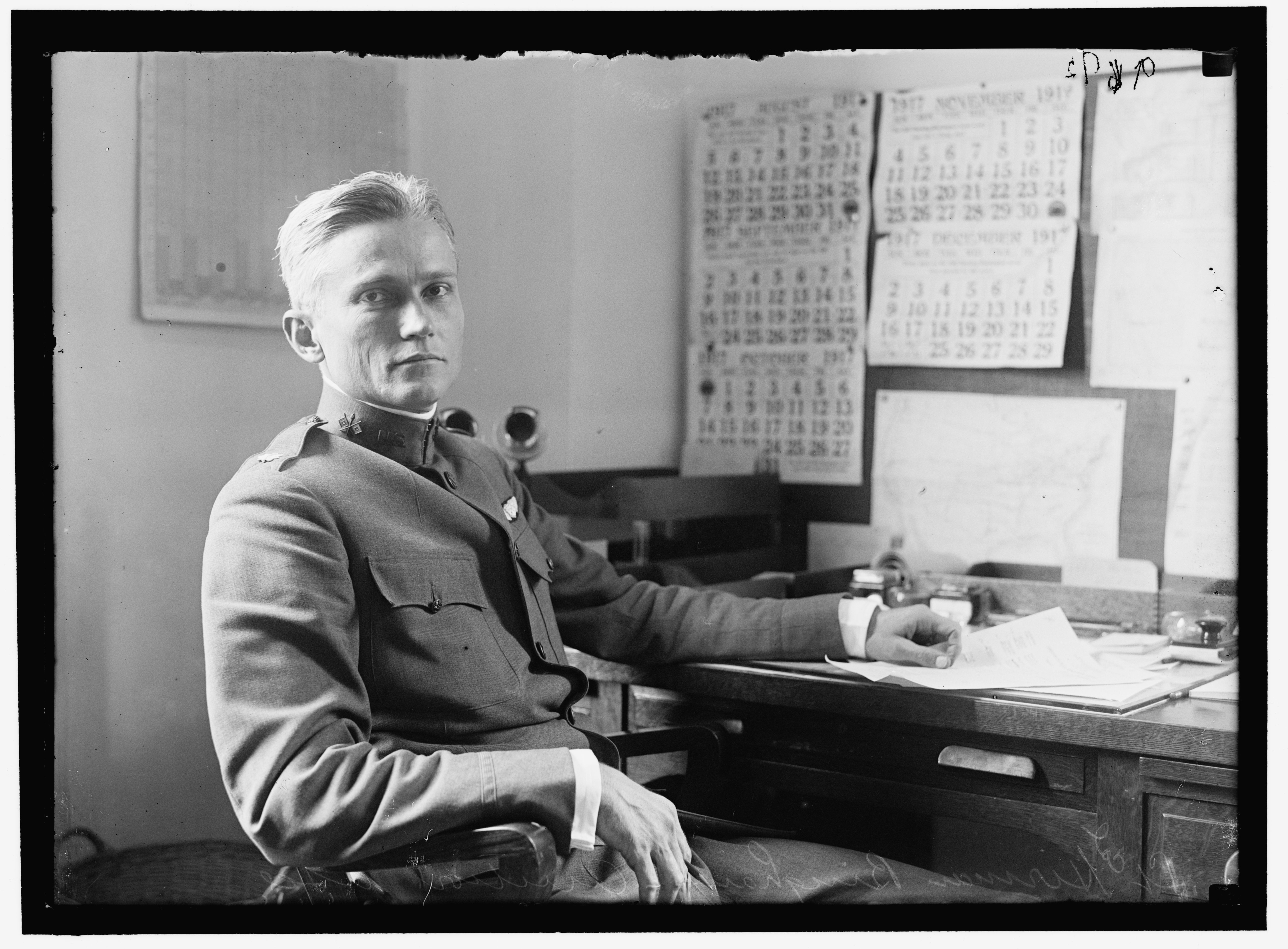 Title: BINGHAM, HIRAM, AVIATOR. AT DESK Creator(s): Harris & Ewing, photographer Date Created/Published: 1917. Medium: 1 negative : glass ; 5 x 7 in. or smaller Reproduction Number: LC-DIG-hec-09874 (digital file from original negative) Rights Advisory: No known restrictions on publication. Call Number: LC-H261- 9692 [P&P] Repository: Library of Congress Prints and Photographs Division Washington, D.C. 20540 USA